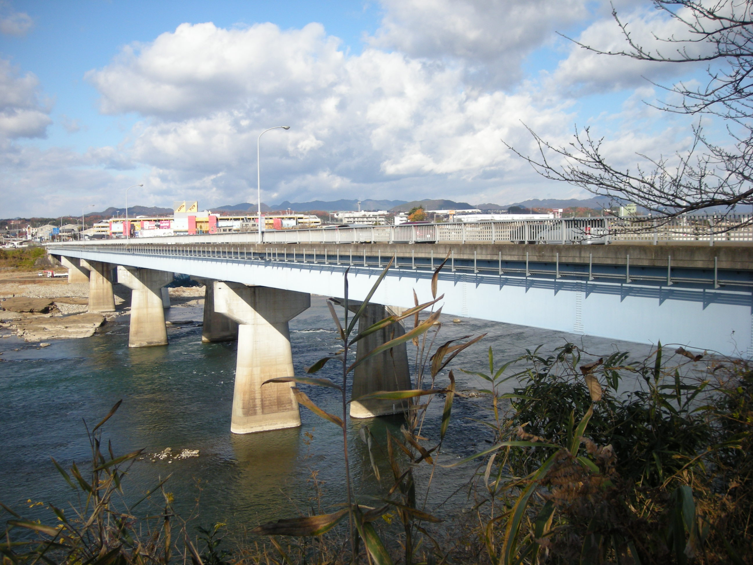 Shin Ohotabashi bridge（新太田橋）